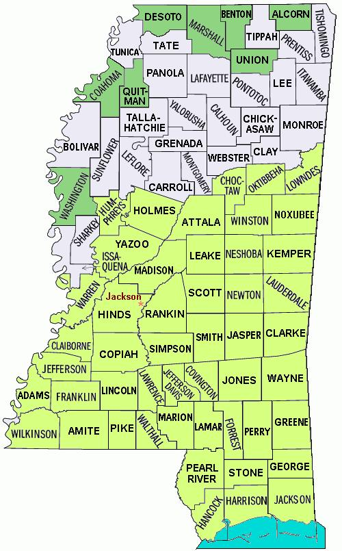 Hurricane Katrina Mississippi disaster areas: Map of the state of Mississippi showing borders and names of the counties, with disaster areas from Hurricane Katrina shaded: all counties in Mississippi were declared disaster areas on 10/27/2005, with 49 counties for full Federal assistance (FEMA). The file is in JPEG format for rapid display, due to auto-resizing smaller.